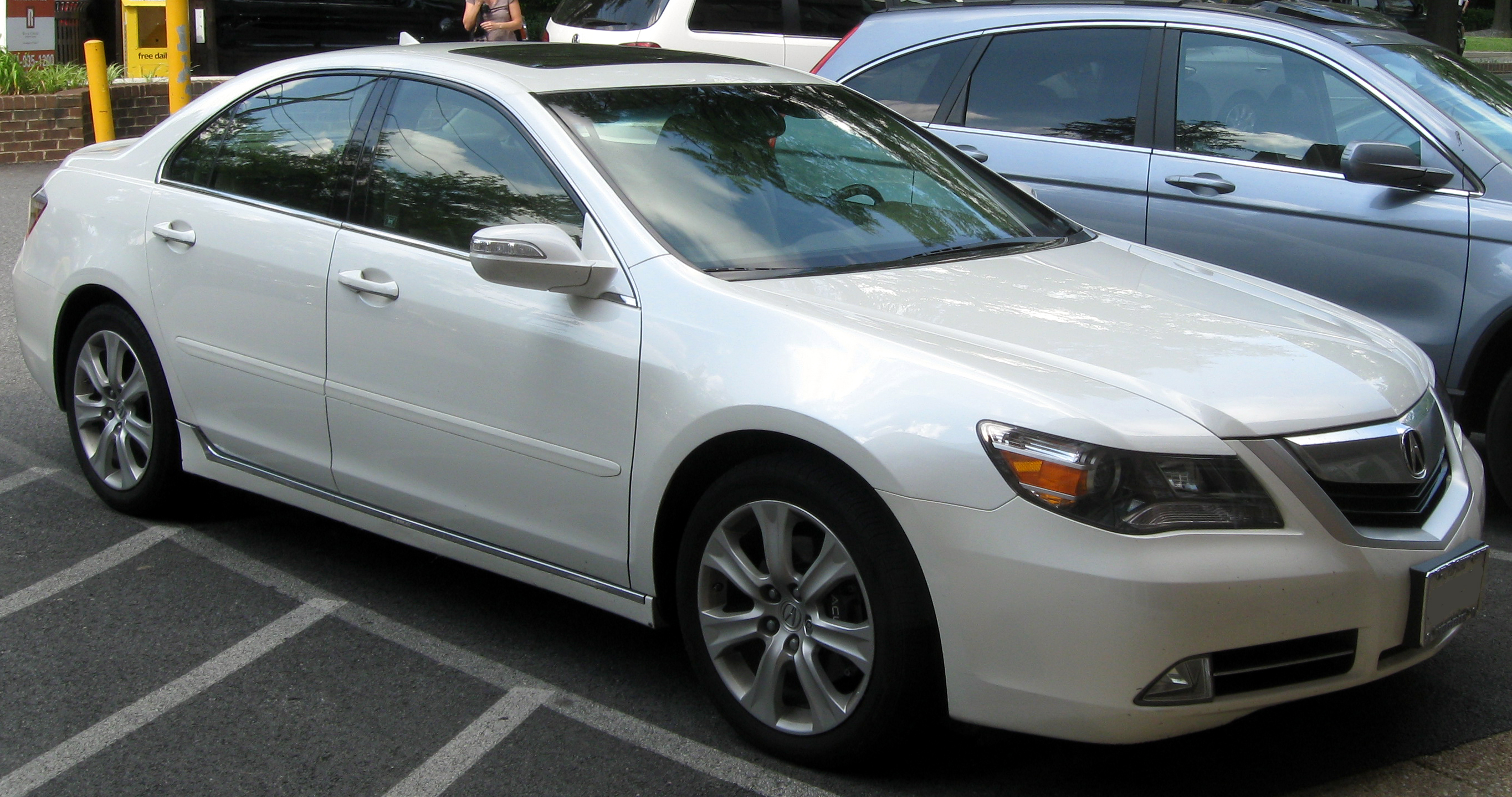 2009-2011 Acura RL photographed in Washington, D.C., USA.